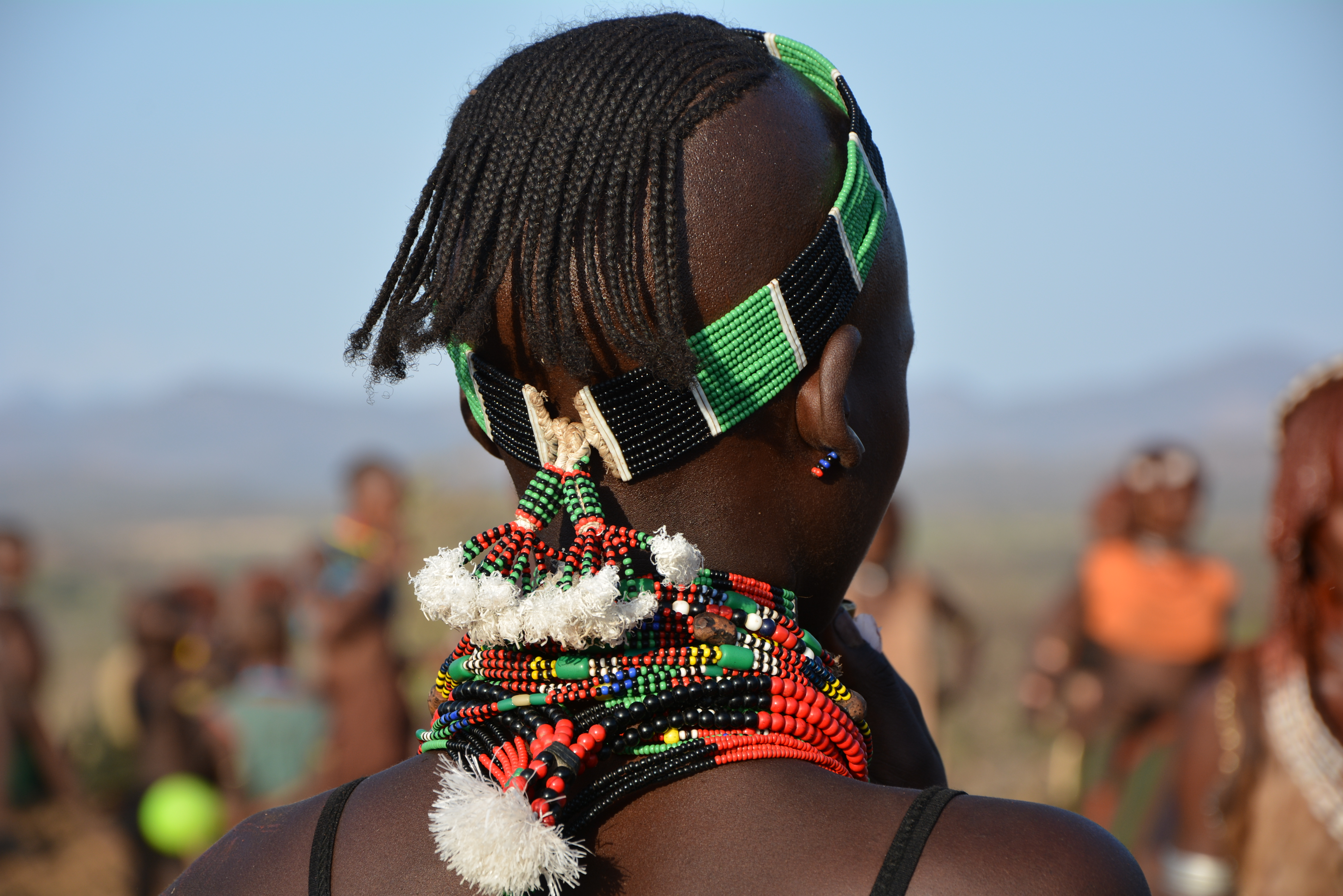 This is an image of Cultural Fashion or Adornment from Ethiopia